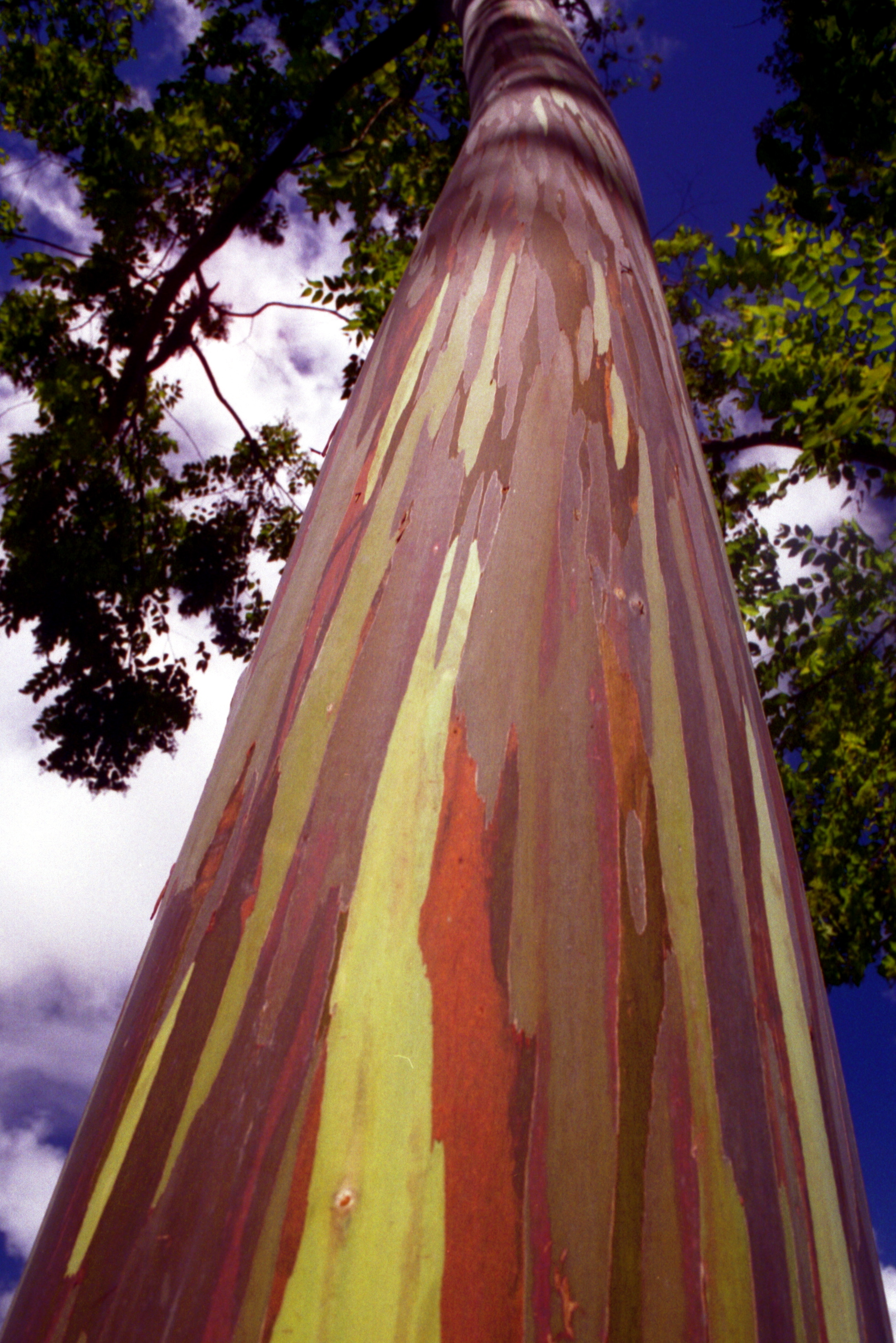 Rainbow Eucalyptus